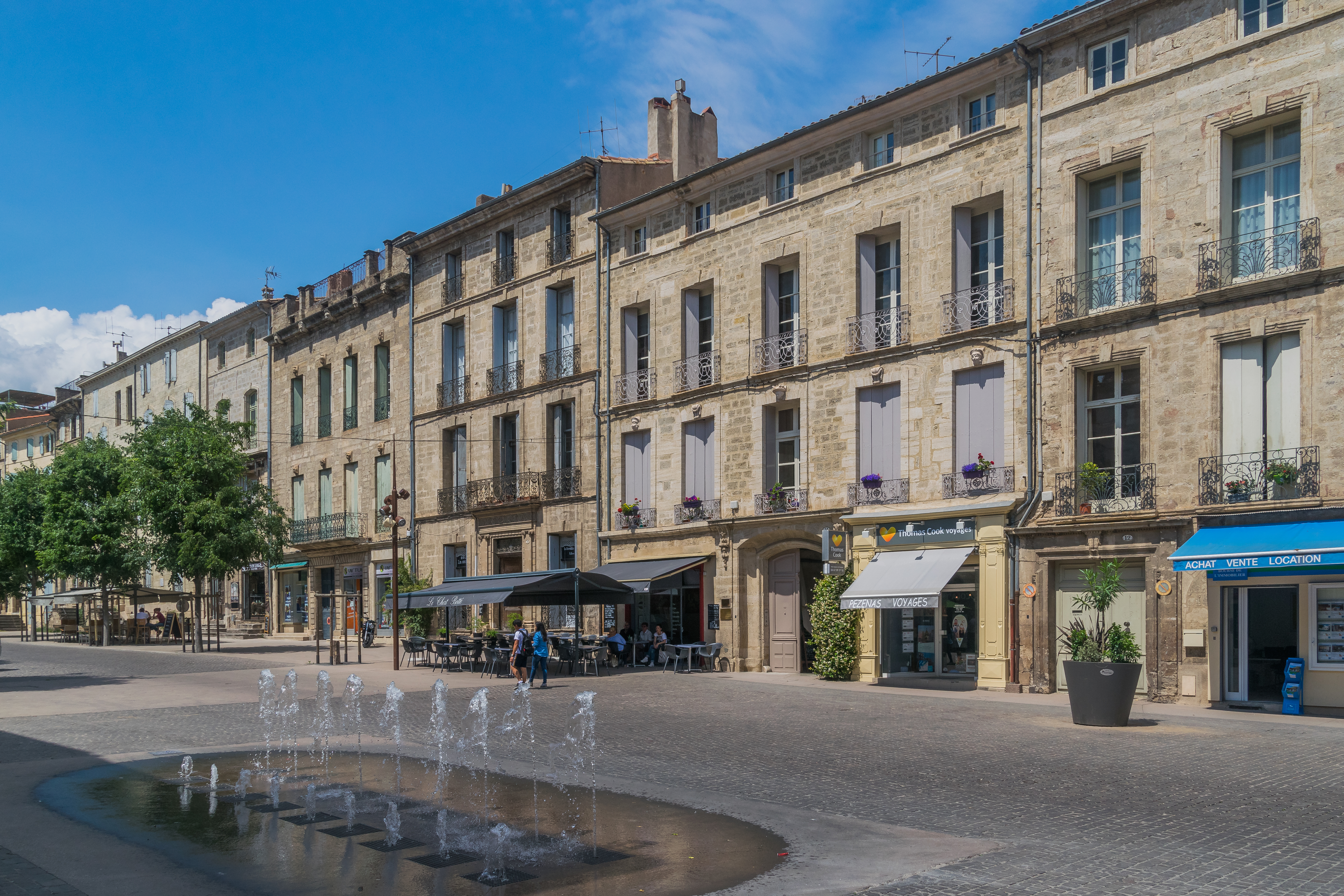 Cours Jean Jaurès in Pézenas, Hérault, France